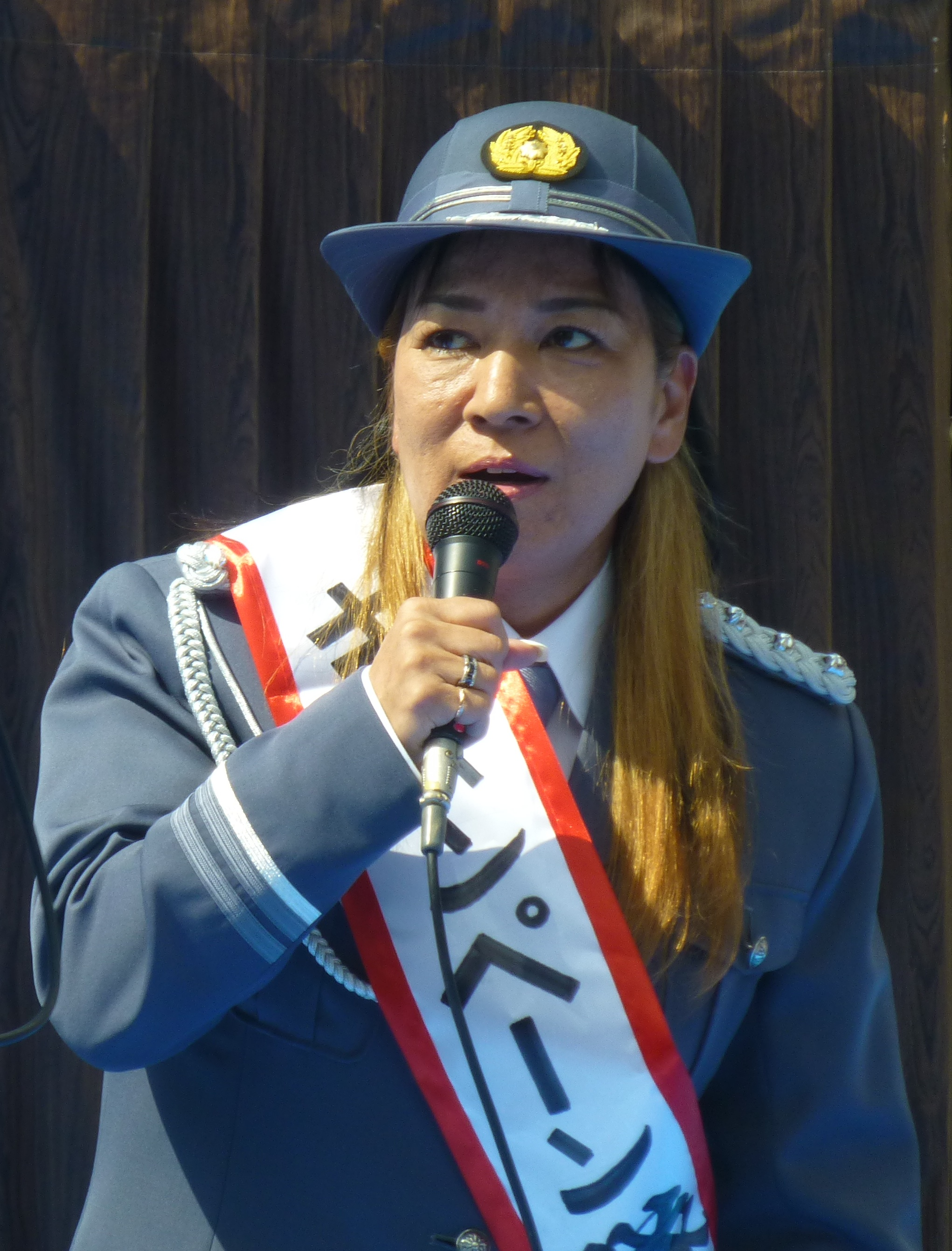 Rimi Yokota (横田 利美 Yokota Rimi) (born July 25, 1961) is a Japanese professional wrestler and later wrestling trainer, who wrestled under the name Jaguar Yokota (ジャガー横田).